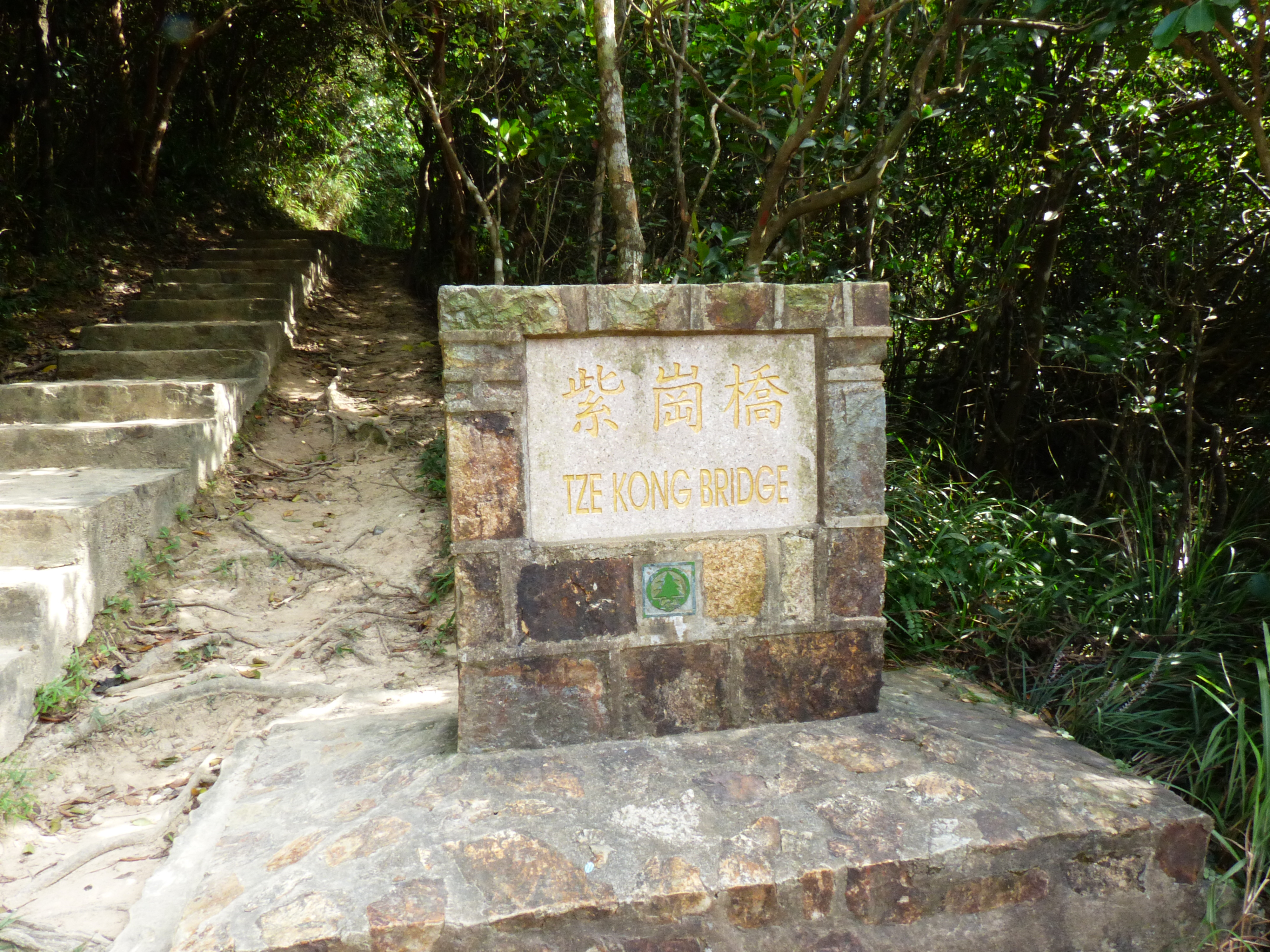 The Tze Kong Bridge found in Tsin Shui Wan Gap